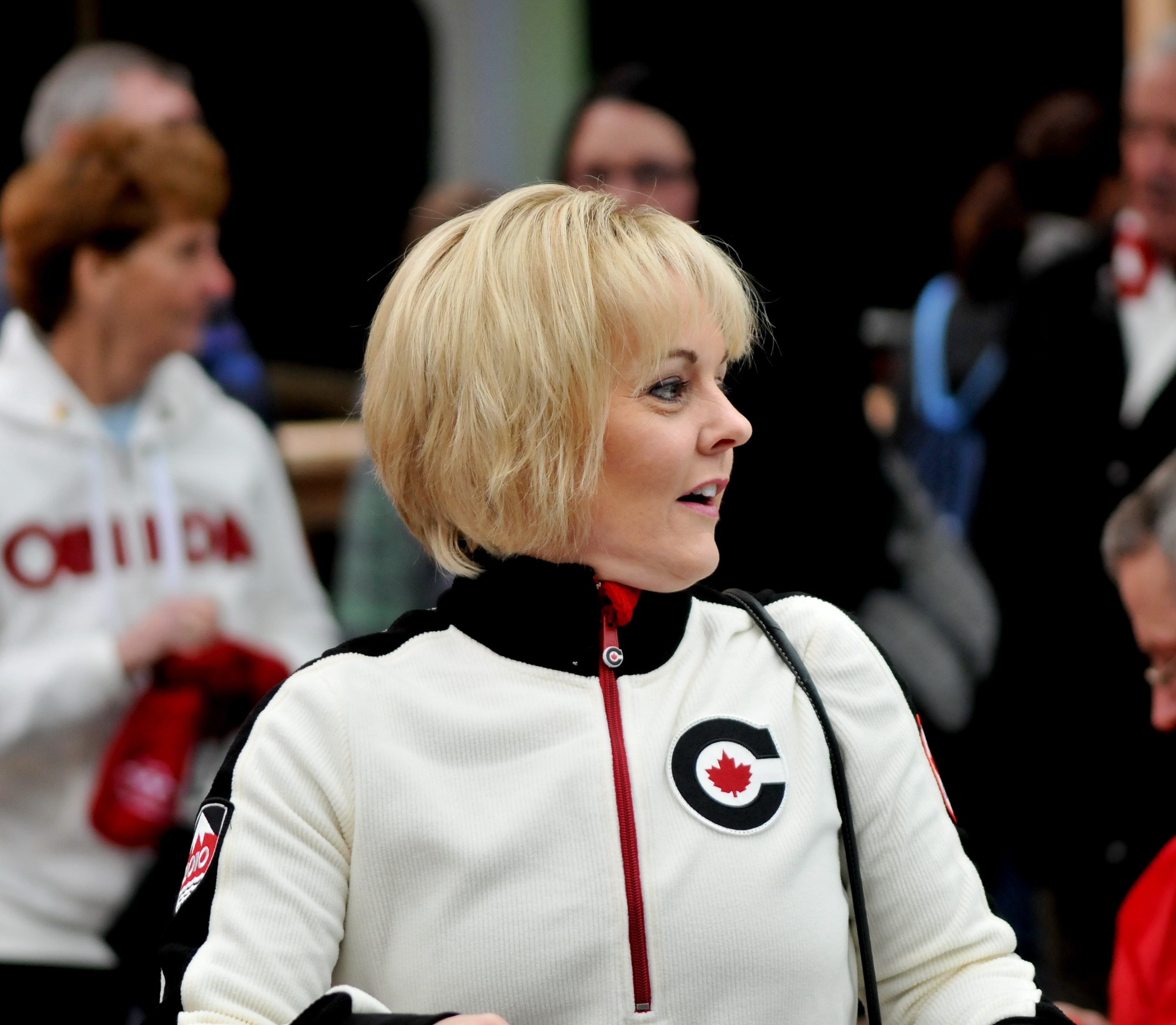 Best Viewed Large or Original. 1988 Calgary Winter Olympic Figure Skating rivals Elizabeth Manley